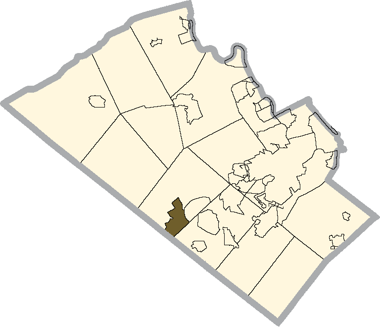 Breinigsville shaded on the map of Lehigh County.